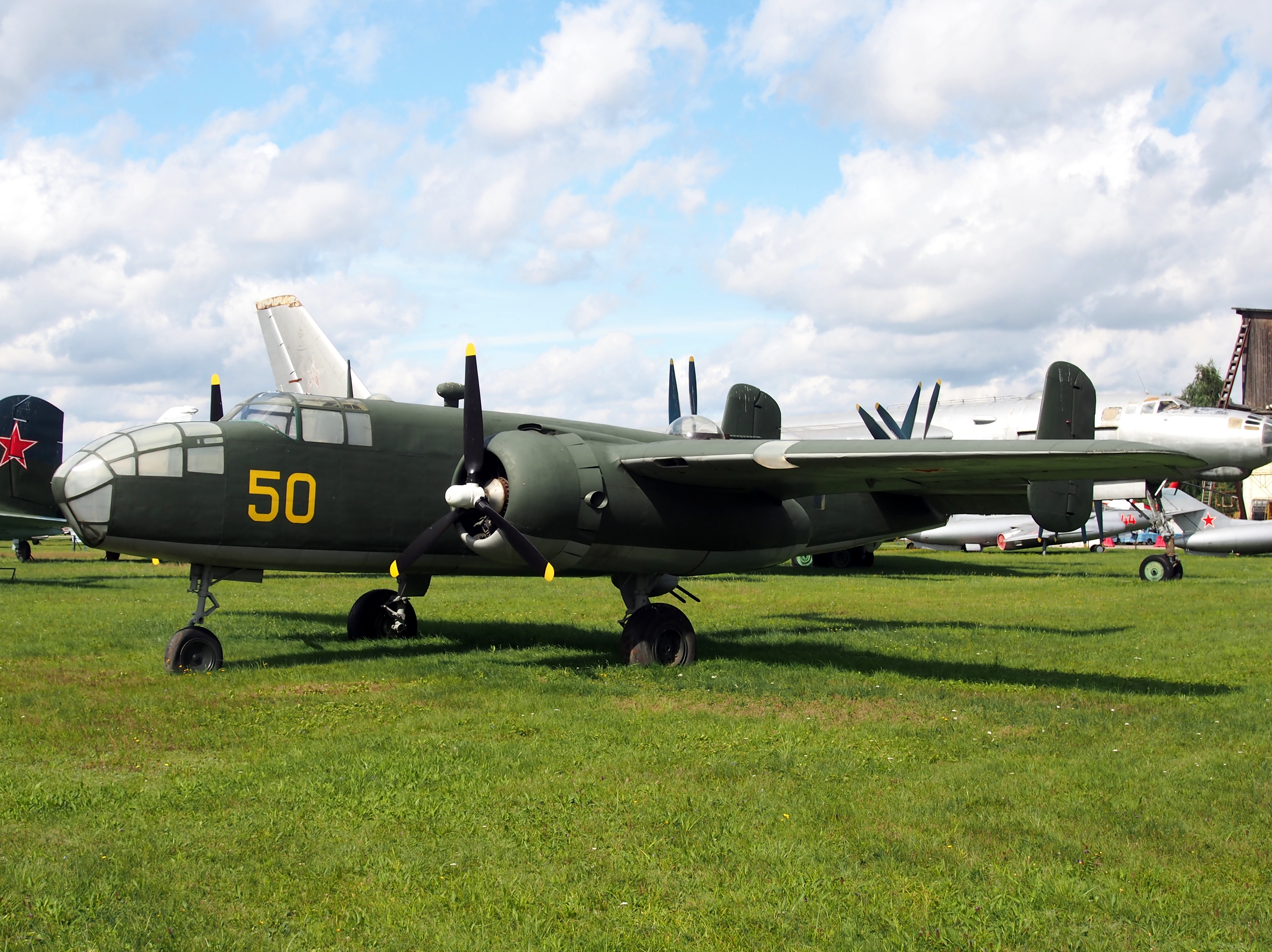 North American B-25D Mitchell at Central Russian Air Force museum, Monino